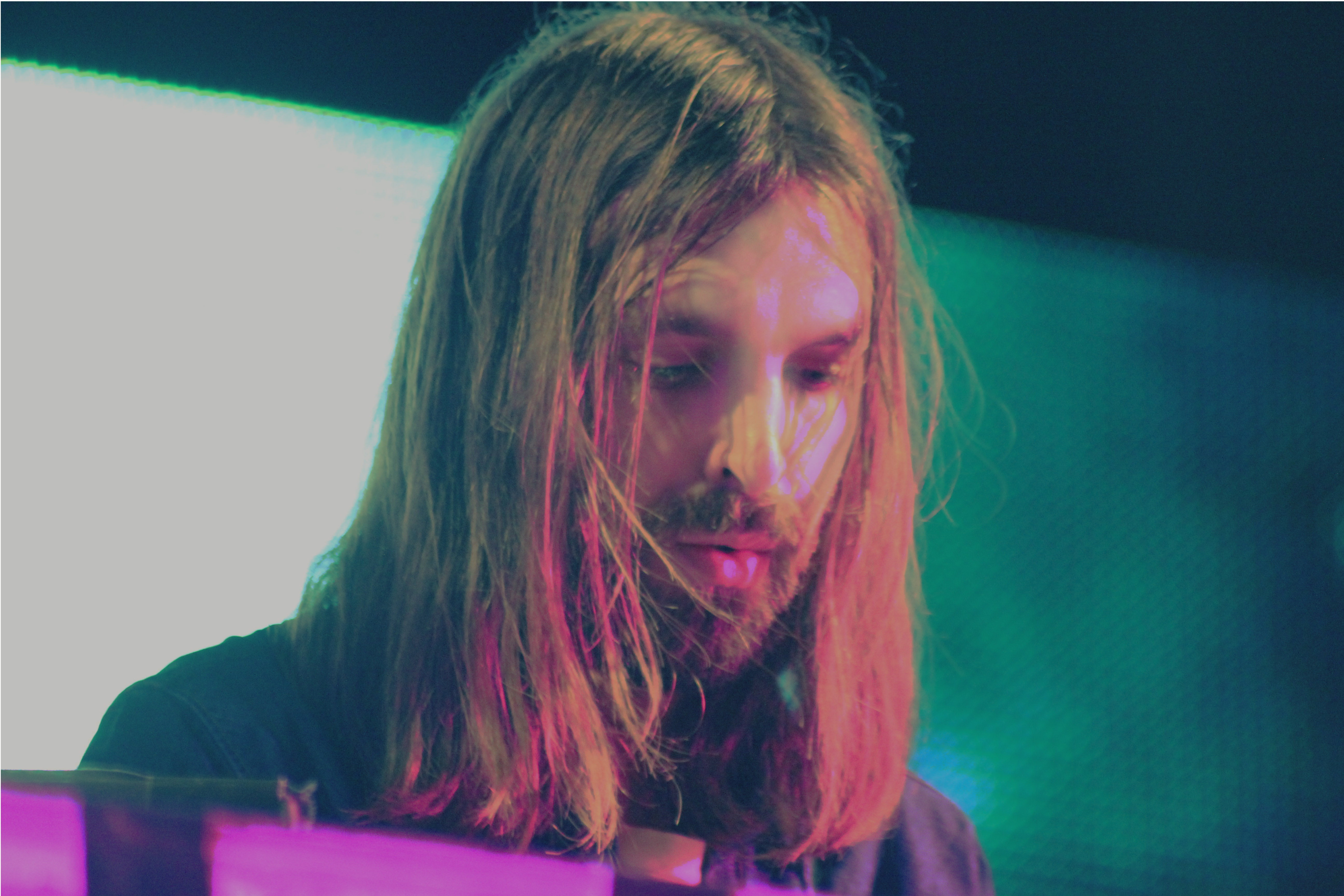 Thibaut Berland known as Breakbot at Revolution Fest,Guadalajara,Mexico.